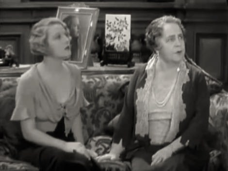 Dorothy Mackaill (left) and Florence Roberts in Kept Husbands - cropped screenshot